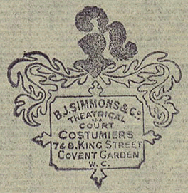 The official stamp of B. J. Simmons & Co.